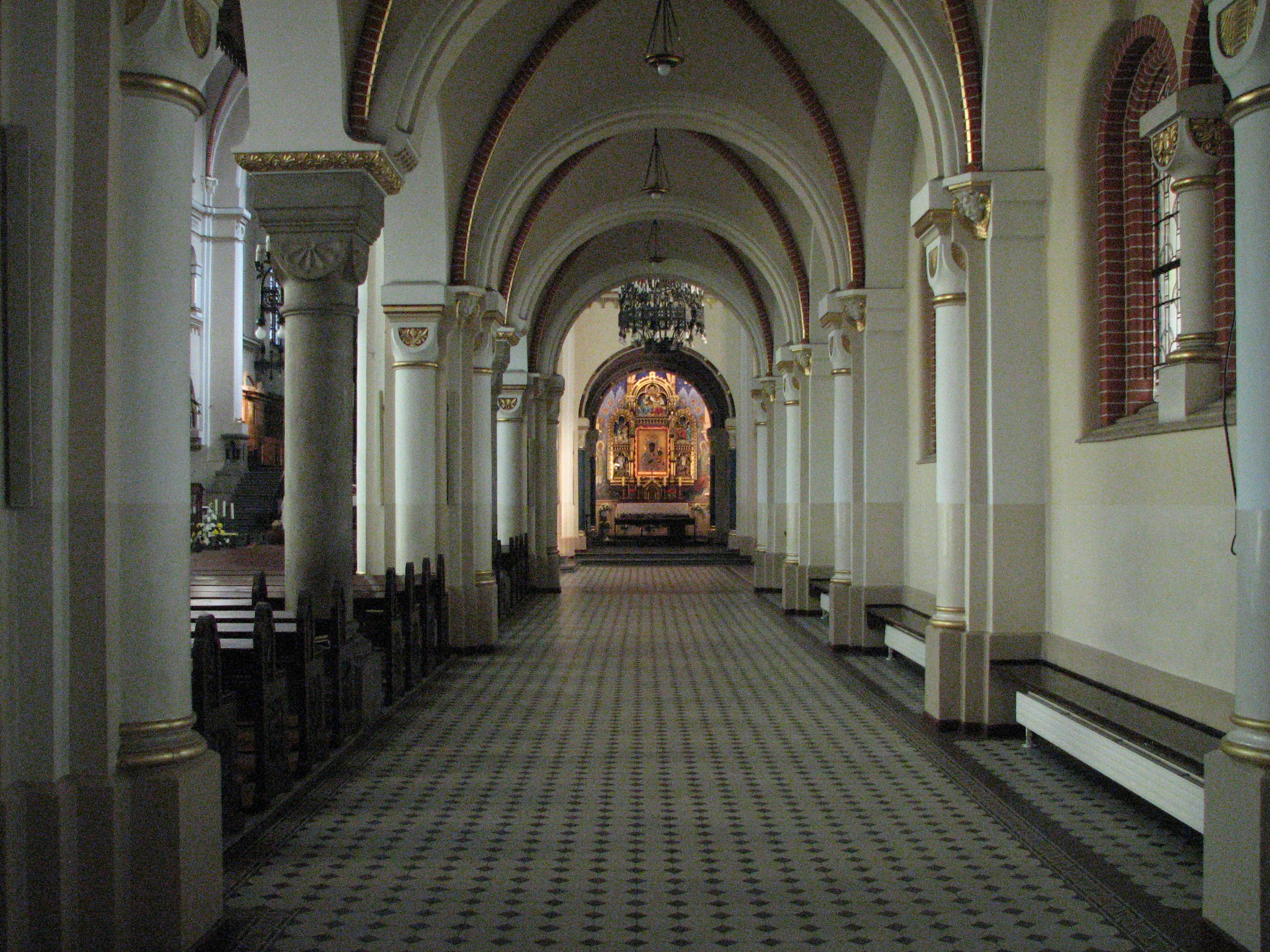 The aisle of the Basilica in Katowice Panewniki, Poland.